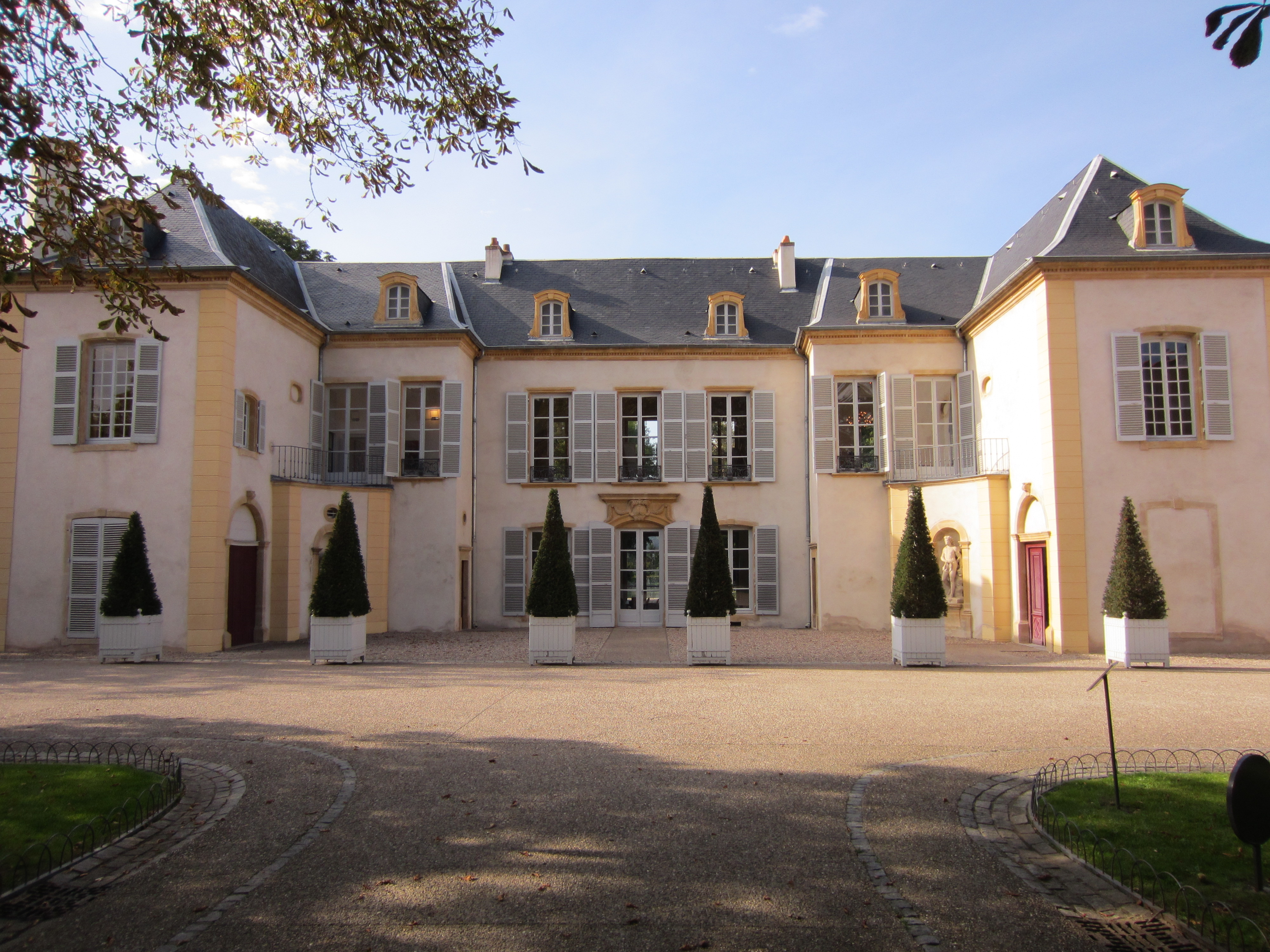 Description chateau Courcelles Montigny Metz Date2 September 2011Sourcemon appareil photoAuthorAimelaimePermission(Reusing this file) chateau Courcelles Montigny Metz